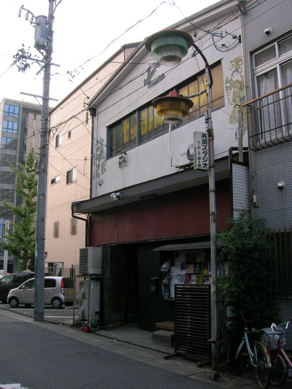 Nanatsu-dera kyodo studio Loc: Nagoya city, Aichi Prefecture, Japan 七ツ寺共同スタジオ 撮影場所 愛知県名古屋市